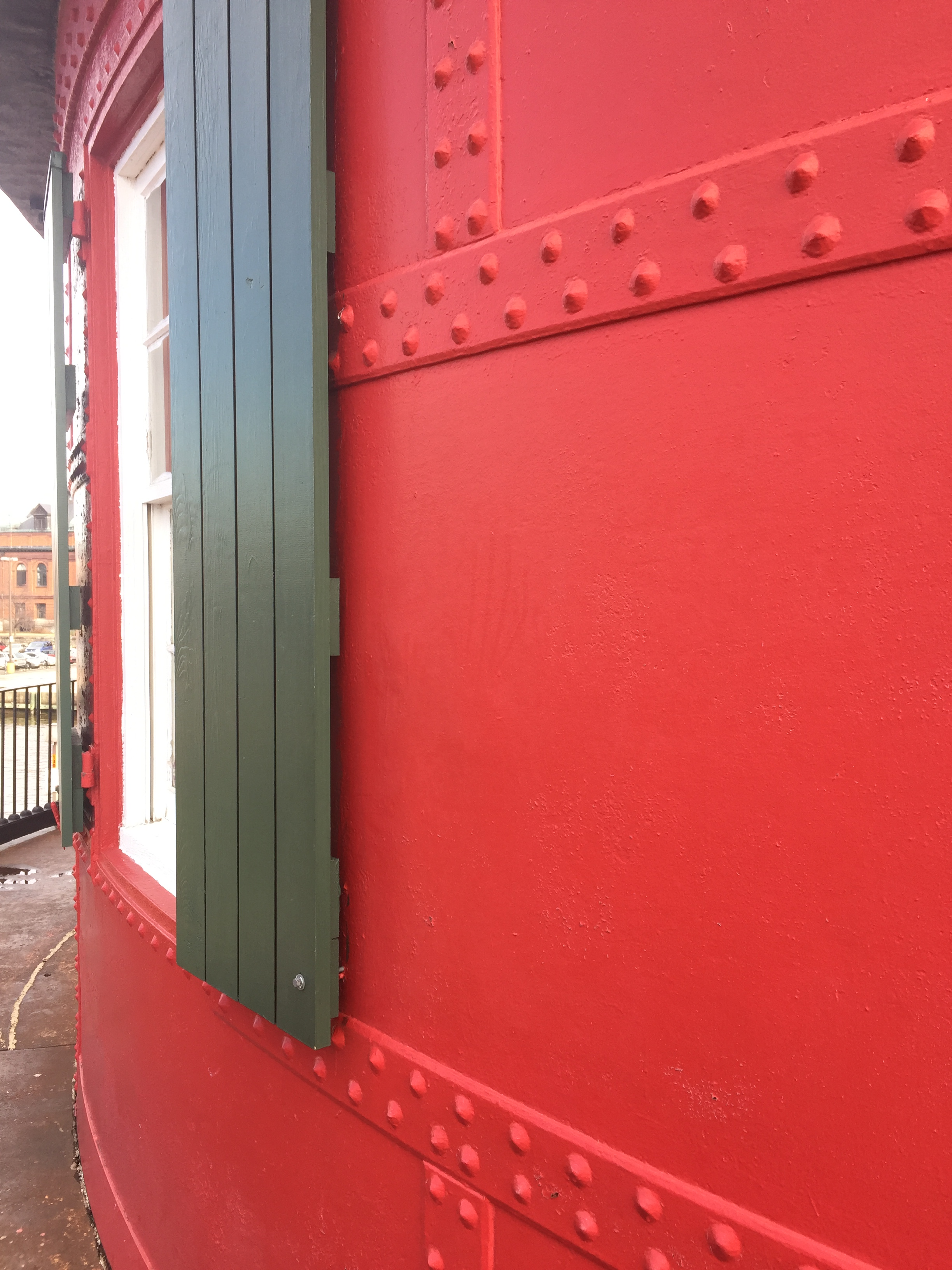 En exterior view of Seven Foot Knoll Light, showing the iron construction. Sheets were butted together and fastened with strips riveted over the joints.